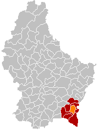 Own edit of Kanton RemichLocatie.png